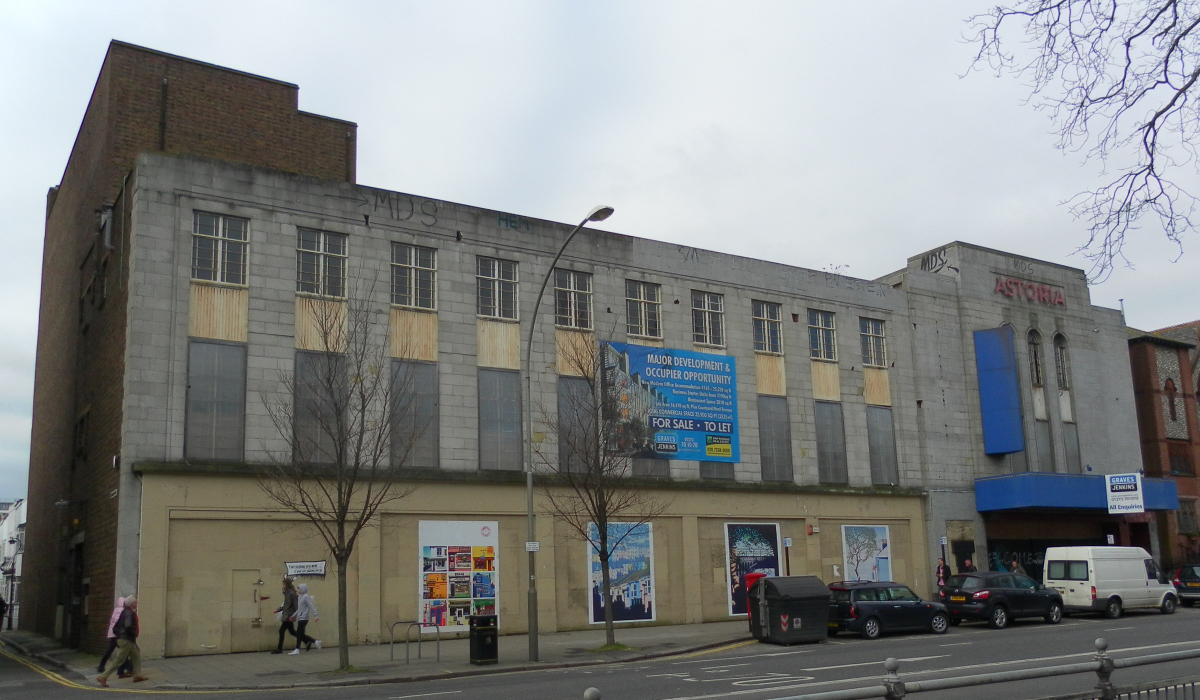 The former Astoria Cinema, Gloucester Place, Brighton, City of Brighton and Hove, England. Built in 1933 as an 1,800-capacity "super-cinema" by Edward Stone, it became a bingo hall in 1977 and closed down in 1997. As of 2013, it is still empty. Planning permission for its demolition was granted in January 2012. Listed at Grade II by English Heritage (IoE Code 486887)